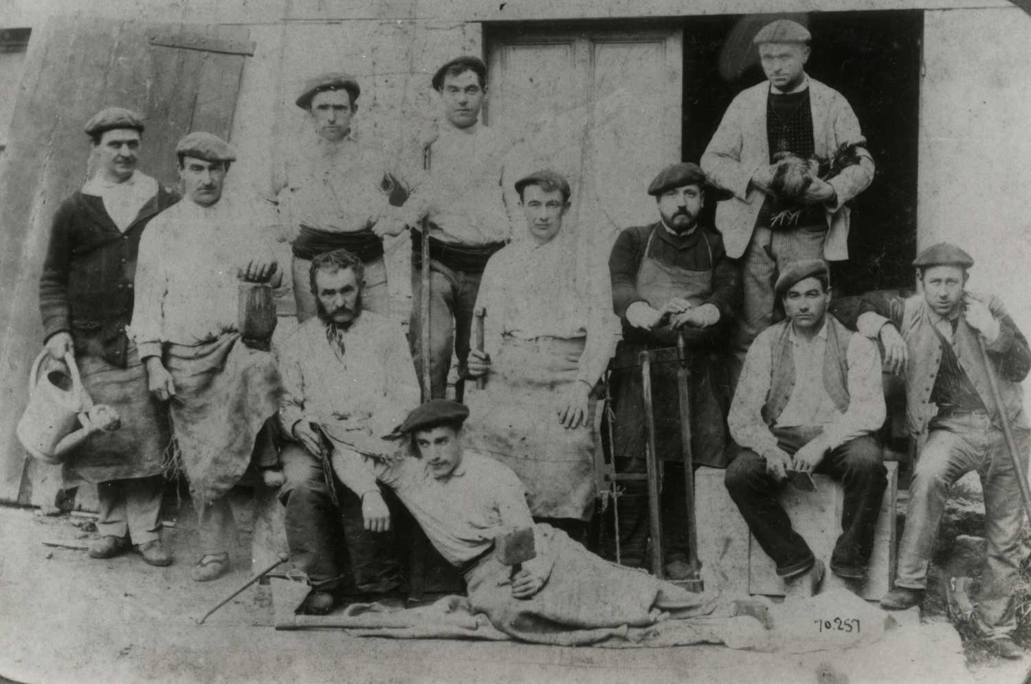 Cigar factory workers when it was in Garibai kalea, Donostia-San Sebastián, Basque Country (1889)